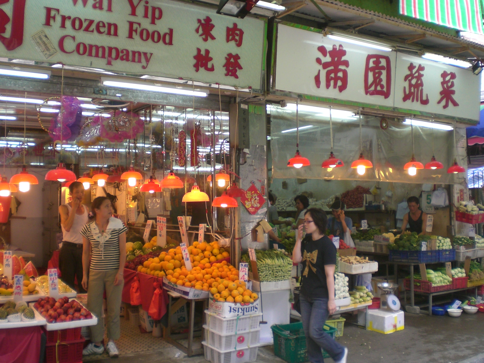 灣仔zh:太和街